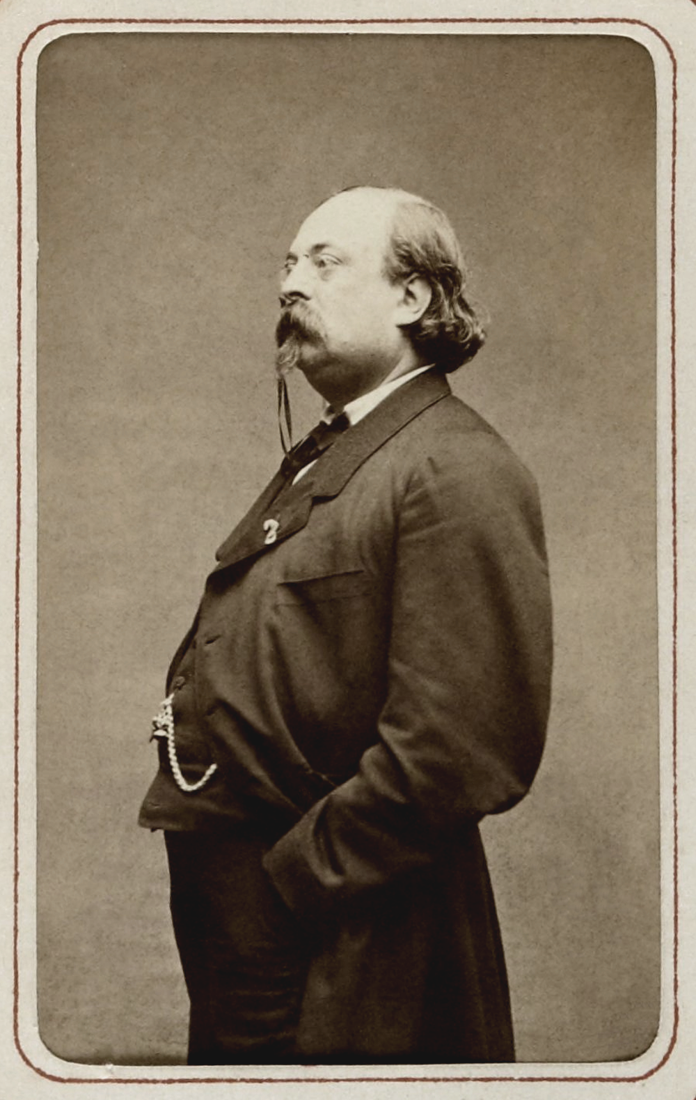 Louis Bouilhet (1822-1869), french poet and dramatist.